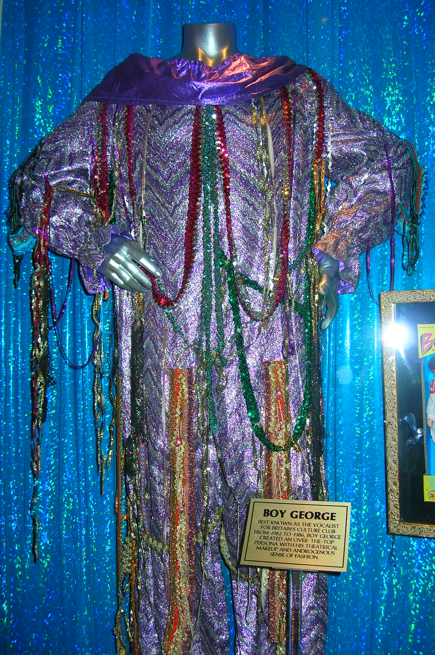 One of Boy George's outfits on display at the Hard Rock Café, Hollywood in Universal City, California.